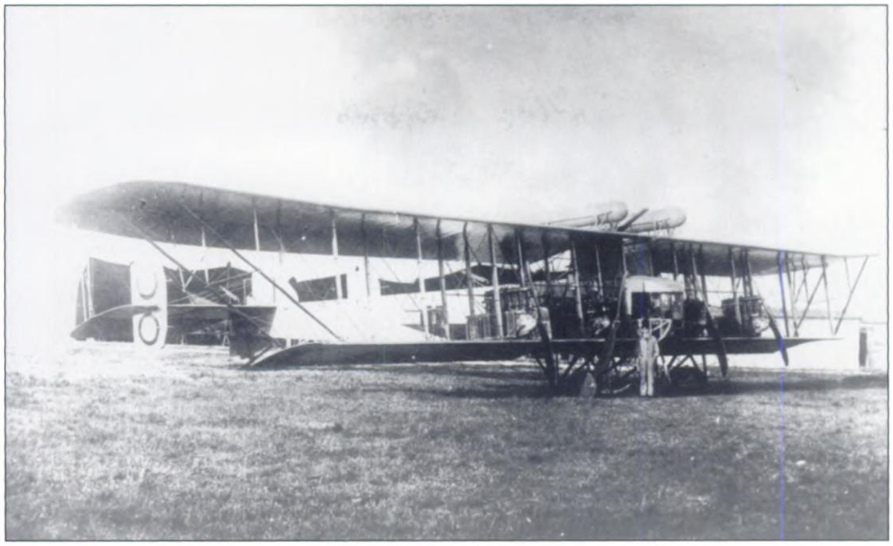 The Sikorsky S-25, or Geh-2, Ilya Muromets was the first aircraft in history with a tail gunner position. First flown in March 1916, about 26 Geh-2s were built before production shifted to the Geh-3. Documents confirm that it flew at altitudes of 17,000 feet on several occasions. Flights were limited by the amount of oxygen bottles on board rather than lack of performance of the aircraft.